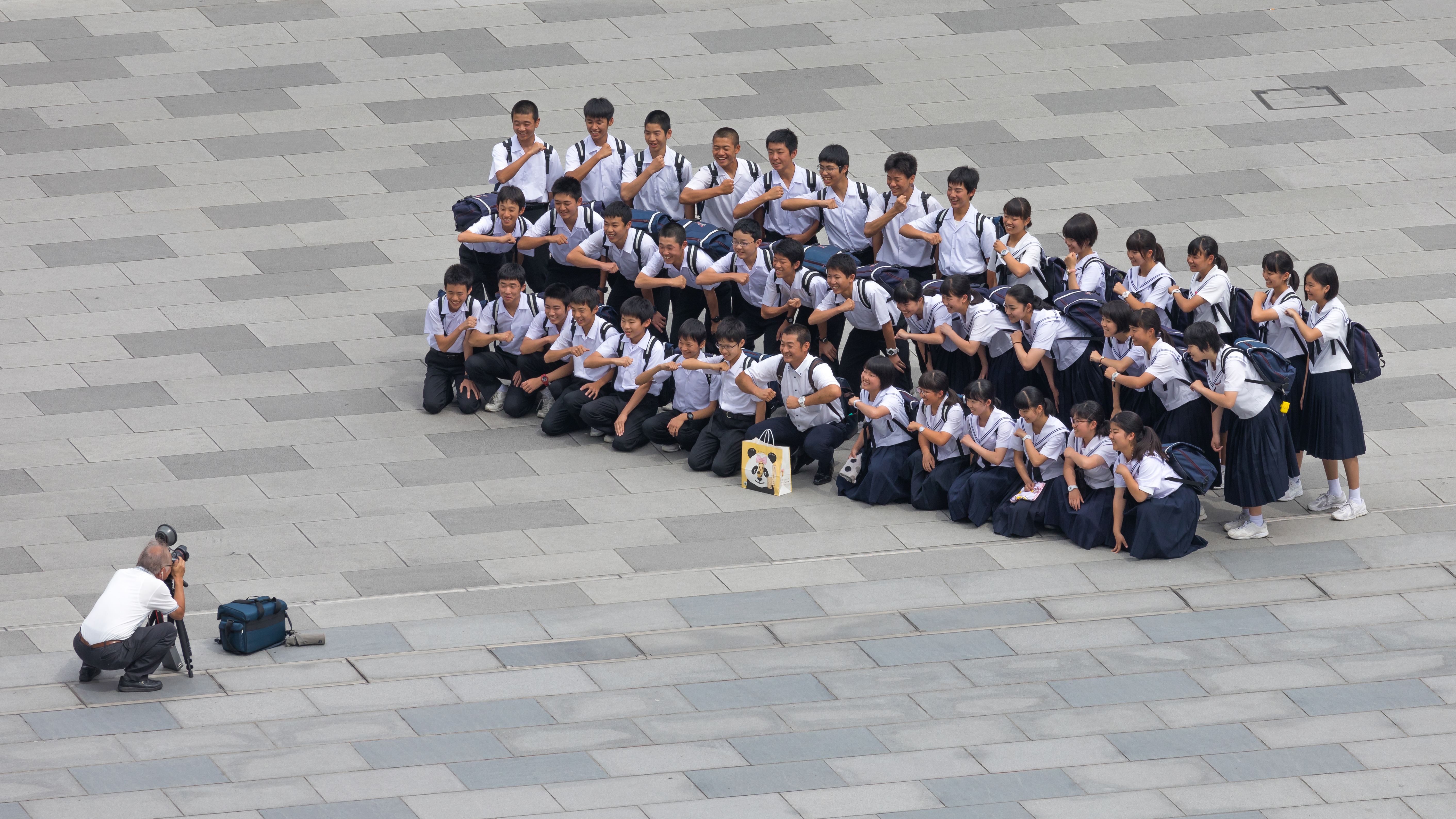 Photographer taking a group photograph of smiling students rising their elbow with their teacher in the center, on the pavement of the the Tokyo station, Marunouchi, Japan. Top view from a rooftop terrasse.